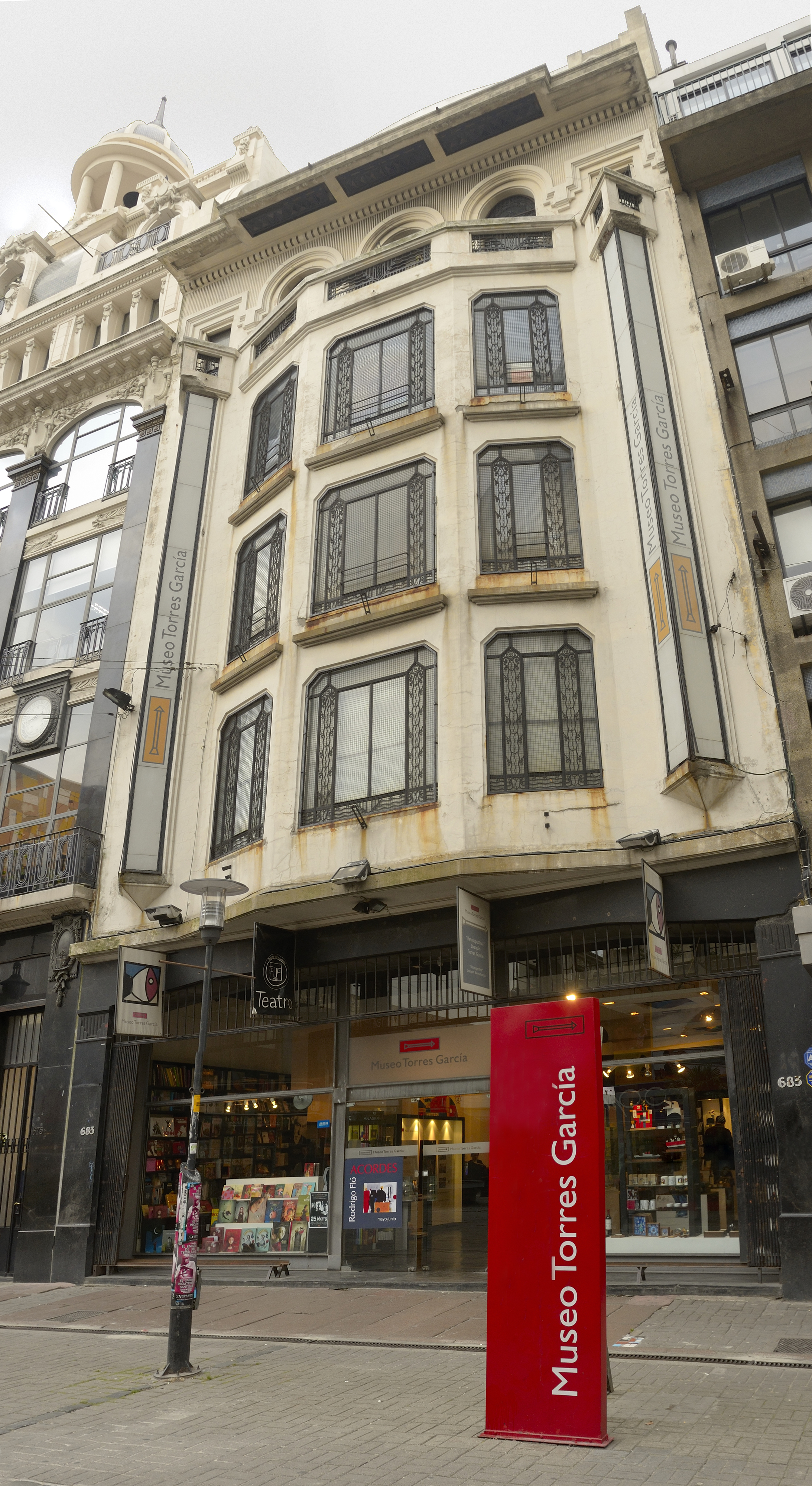 Front Museo Torres García, Montevideo, Uruguay.